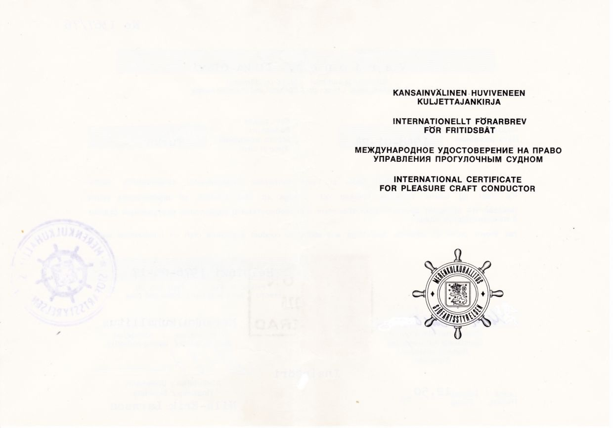 Cover page of an International Certificate for Pleasure Craft Conductor issued in Finland by National Board of Navigation in 1976.